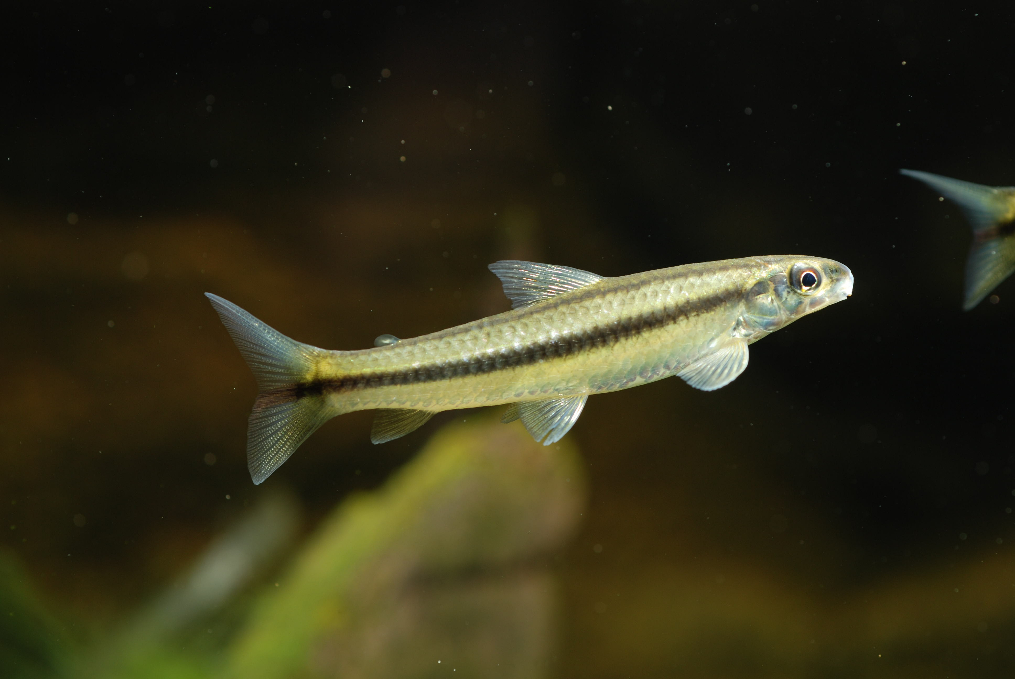 Aquarium photo of adult female _Apareiodon hasemani_ (Characiformes: Parodontidae)